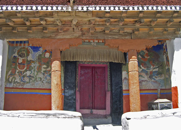 Rizong gompa, Ladakh, India